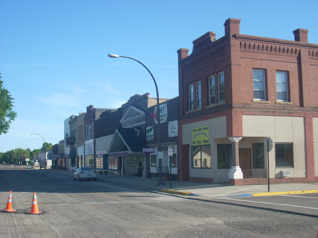 Main Street Ada, Minnesota.